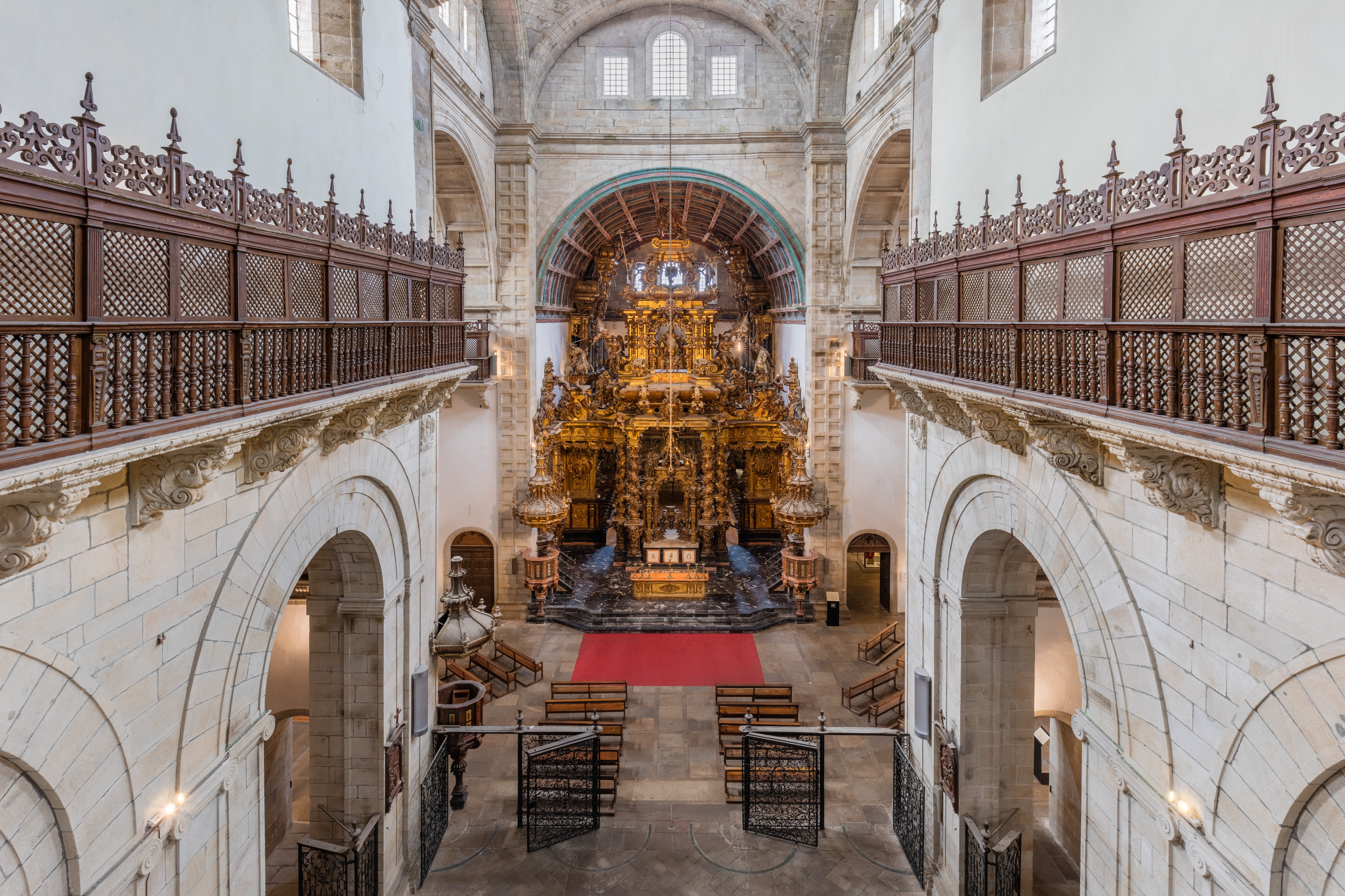 View of the main nave of the church of the monastery of San Martiño Pinario, Santiago de Compostela, Galicia, Spain. The temple, a work of Mateo López and González de Araújo, Bartolomé Fernández Lechuga and José de Peña y Toro, was finished in 1652. The jewel of the church is the elaborated reredos, the biggest designed by Fernando de Casas Novoa and of baroque style.